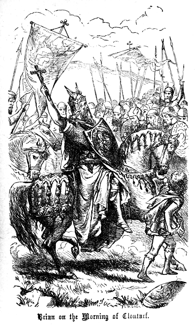 Illustration of Brian Boru by John Fergus O'Hea, engraved by C. M. Grey